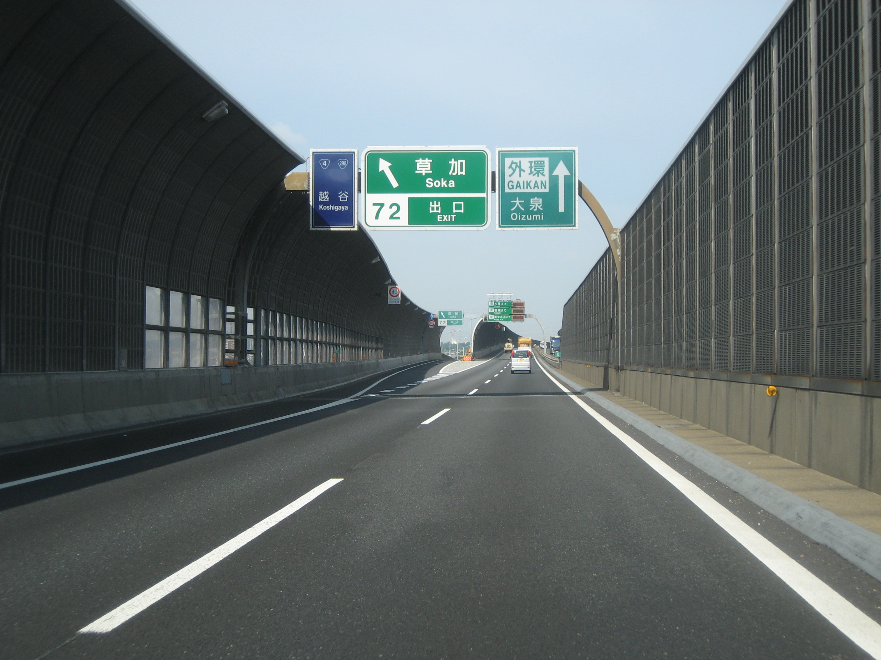 Soka Interchange on the Tokyo Gaikan Expressway